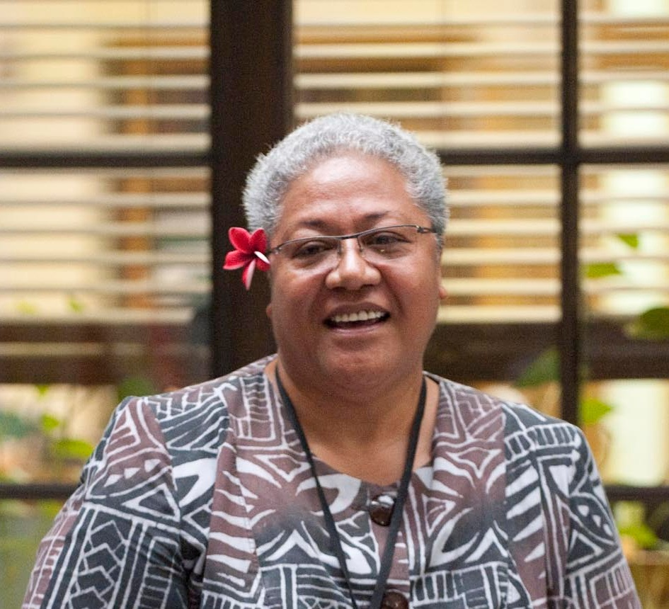 Pacific Parliamentary and Political Leaders Forum, 2013 : A Powhiri Welcome takes place in Parliament by New Zealand MP's. Afioga Hon Fiame Naomi Mataafa.